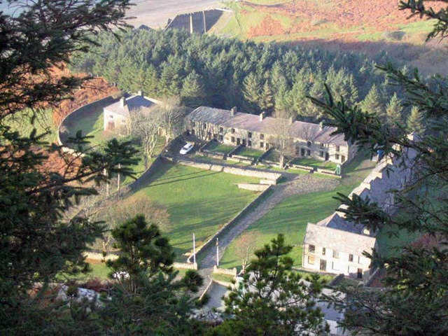 Nant Gwrtheyrn The National Welsh language learning centre. Y Ganolfan Iaith Genedlaethol.